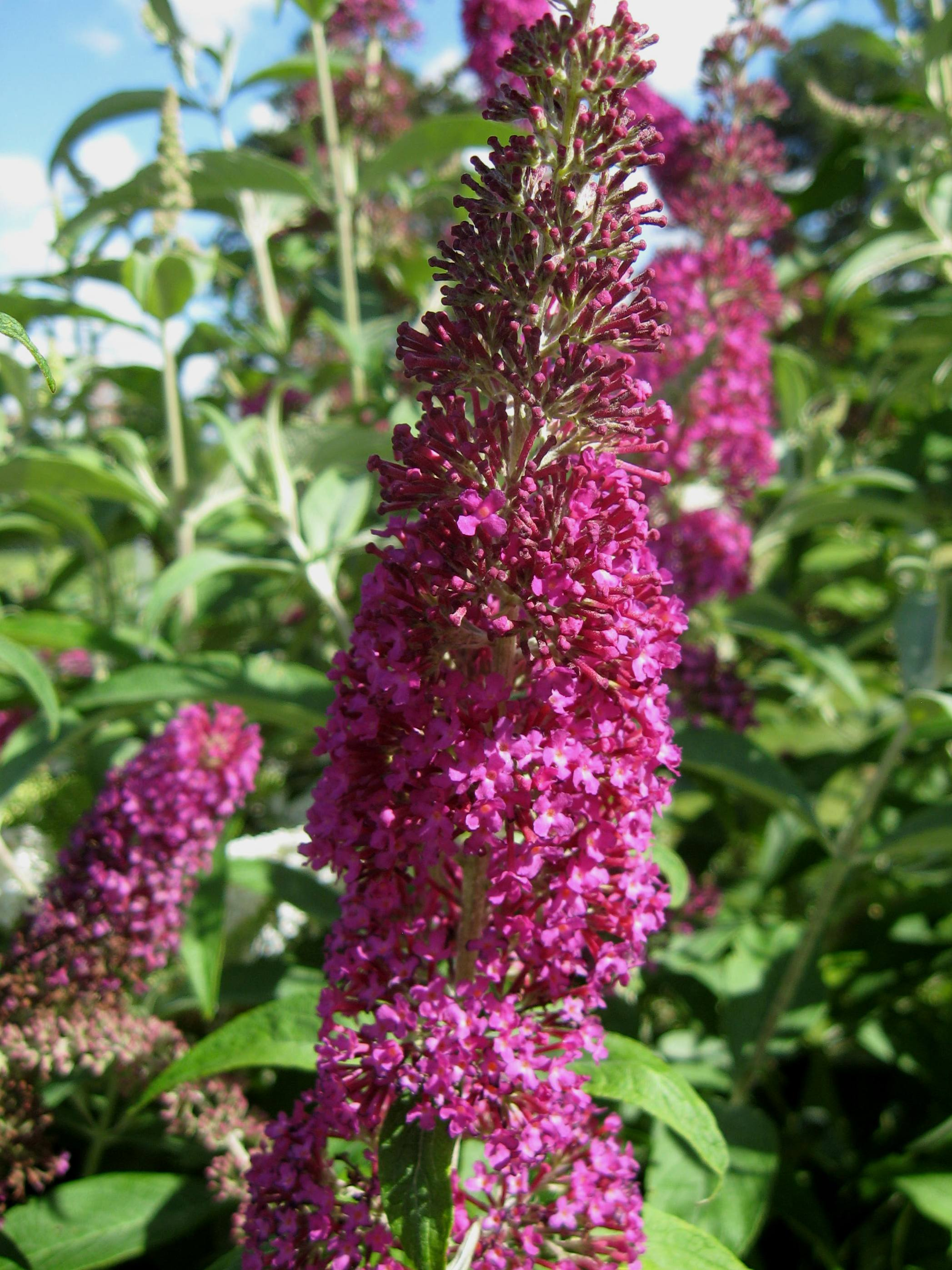 Photo of Buddleja cultivar 'Summer Beauty' taken at Longstock Park, UK, August 2012